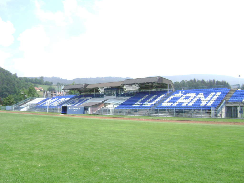 Mladost Stadium, Lučani, Serbia.Српски (ћирилица): Стадион Младост, Лучани, Србија.